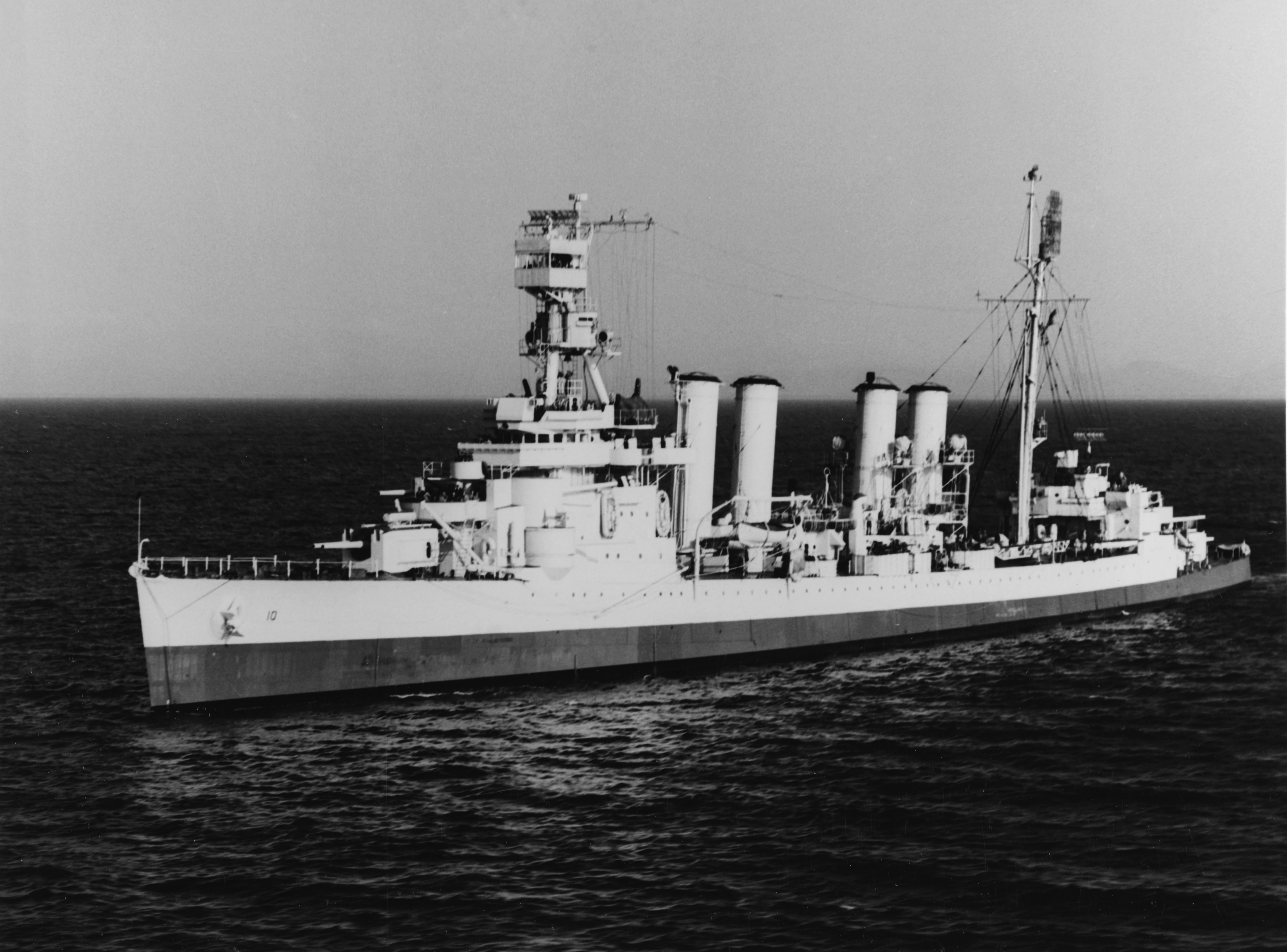 The U.S. Navy light cruiser USS Concord (CL-10) off the Panama Canal Zone on 14 March 1944.